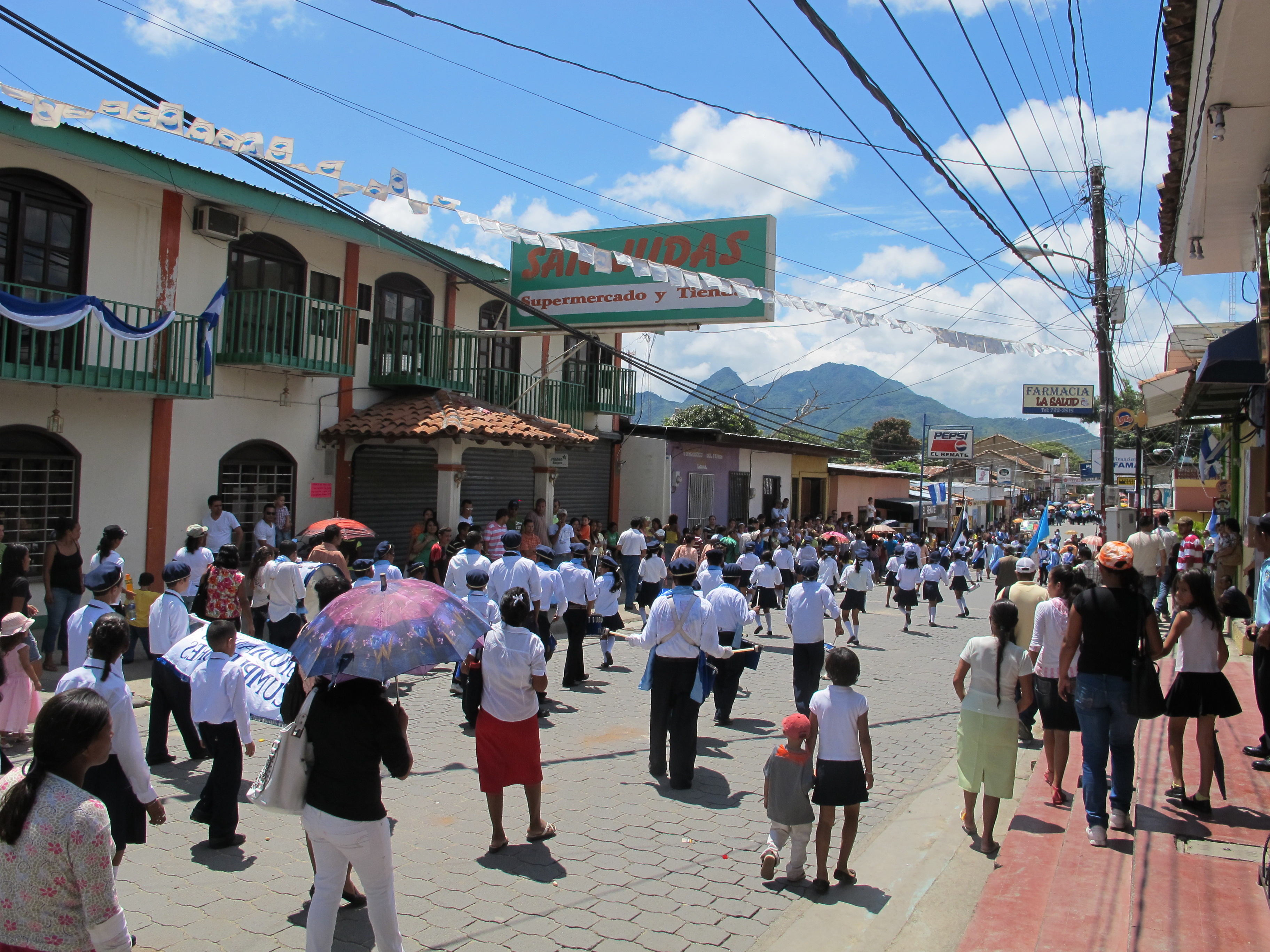 Ocotal Independence Day Parade